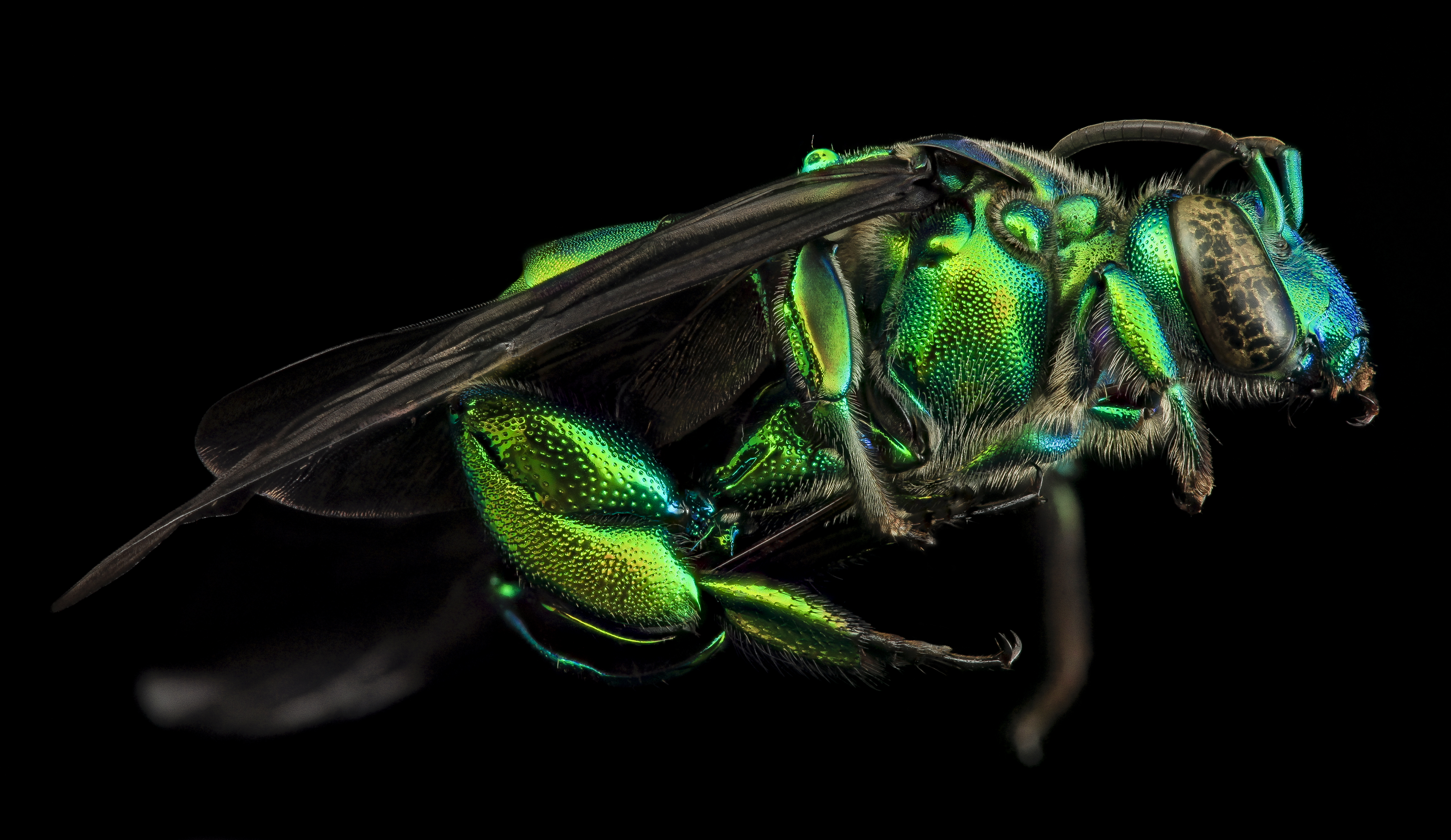 Big, Big, Big, In all its black-winged metallic glory...this species is larger than any bee north of Mexico, we trekked 2 days into the jungles of Guyana to find it. This species, and the genus as a whole, is a nest parasite on other equally large canopy dwelling Orchid Bees. 02:20, 6 July 2014 (UTC)02:20, 6 July 2014 (UTC) 0 02:20, 6 July 2014 (UTC)02:20, 6 July 2014 (UTC) All photographs are public domain, feel free to download and use as you wish. Photography Information: Canon Mark II 5D, Zerene Stacker, Stackshot Sled, 65mm Canon MP-E 1-5X macro lens, Twin Macro Flash in Styrofoam Cooler, F5.0, ISO 100, Shutter Speed 200 Further in Summer than the Birds Pathetic from the Grass A minor Nation celebrates Its unobtrusive Mass. No Ordinance be seen So gradual the Grace A pensive Custom it becomes Enlarging Loneliness. Antiquest felt at Noon When August burning low Arise this spectral Canticle Repose to typify Remit as yet no Grace No Furrow on the Glow Yet a Druidic Difference Enhances Nature now -- Emily Dickinson Useful Links to the Techniques We Use: Basic USGSBIML set up: USGSBIML Photoshopping Technique: Note that we now have added using the burn tool at 50% opacity set to shadows to clean up the halos that bleed into the black background from "hot" color sections of the picture. PDF of Basic USGSBIML Photography Set Up: ftp://ftpext.usgs.gov/pub/er/md/laurel/Droege/How%20to%20Take%20MacroPhotographs%20of%20Insects%20BIML%20Lab2.pdf Google Hangout Demonstration of Techniques: or Excellent Technical Form on Stacking: Contact information: Sam Droege 301 497 5840